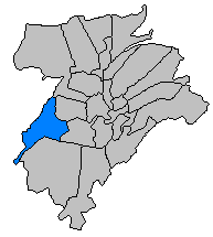 Map of Luxembourg City, Luxembourg, with the boundaries of the city's twenty-four quarters demarcated and the quarter of Merl highlighted in blue.